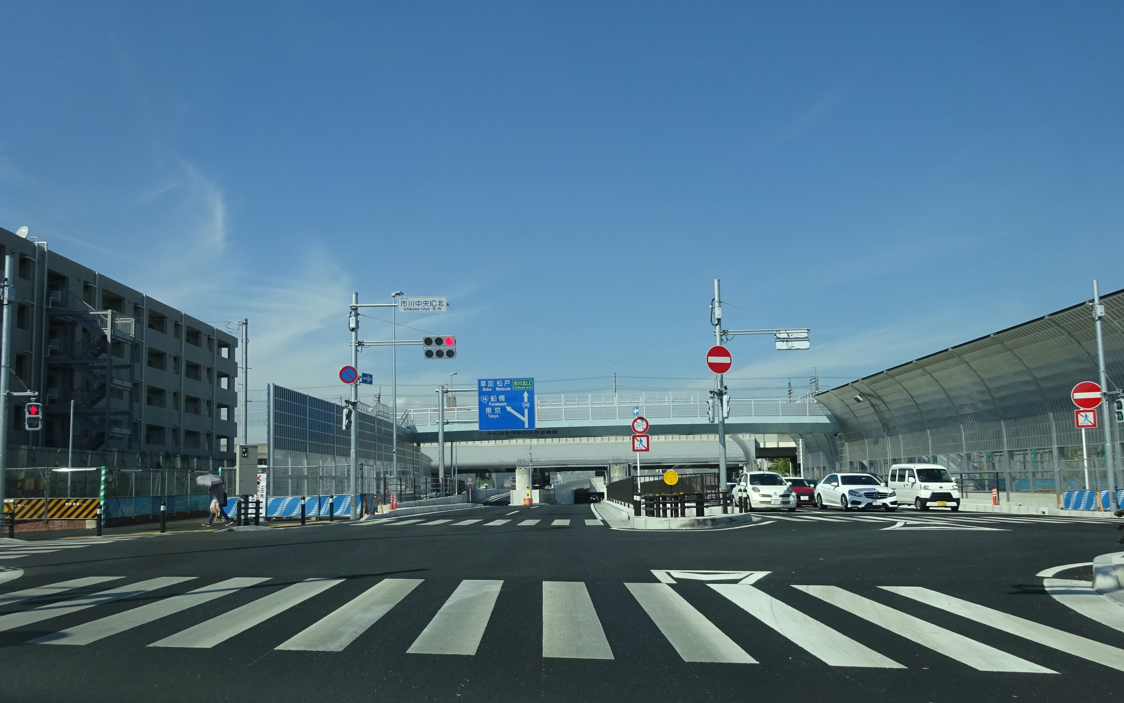 Japan National Route 298(Ichikawa Chuo IC)